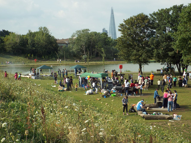 Sunday barbecues by the lake, Burgess Park